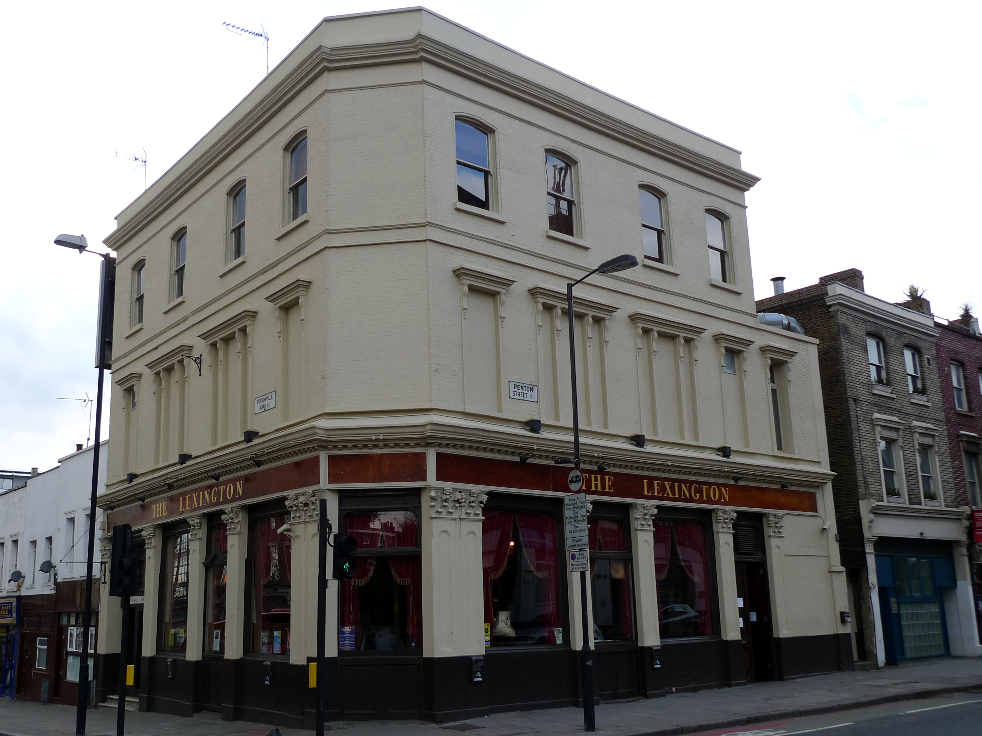 A decent enough bar on Pentonville Rd, with a good selection of whiskies and American beers. There's a good pop quiz on Mondays, and some friends spin relaxing tunes on Sundays. (Photo of it as Clockwork.) (Photos of nut roast, chicken roast and hot dog.) Address: 96-98 Pentonville Road. Former Name(s): Clockwork; The Sazerac; The Belvedere; La Finca; The Belvedere Tavern. Owner: (website). Links: London Pubology